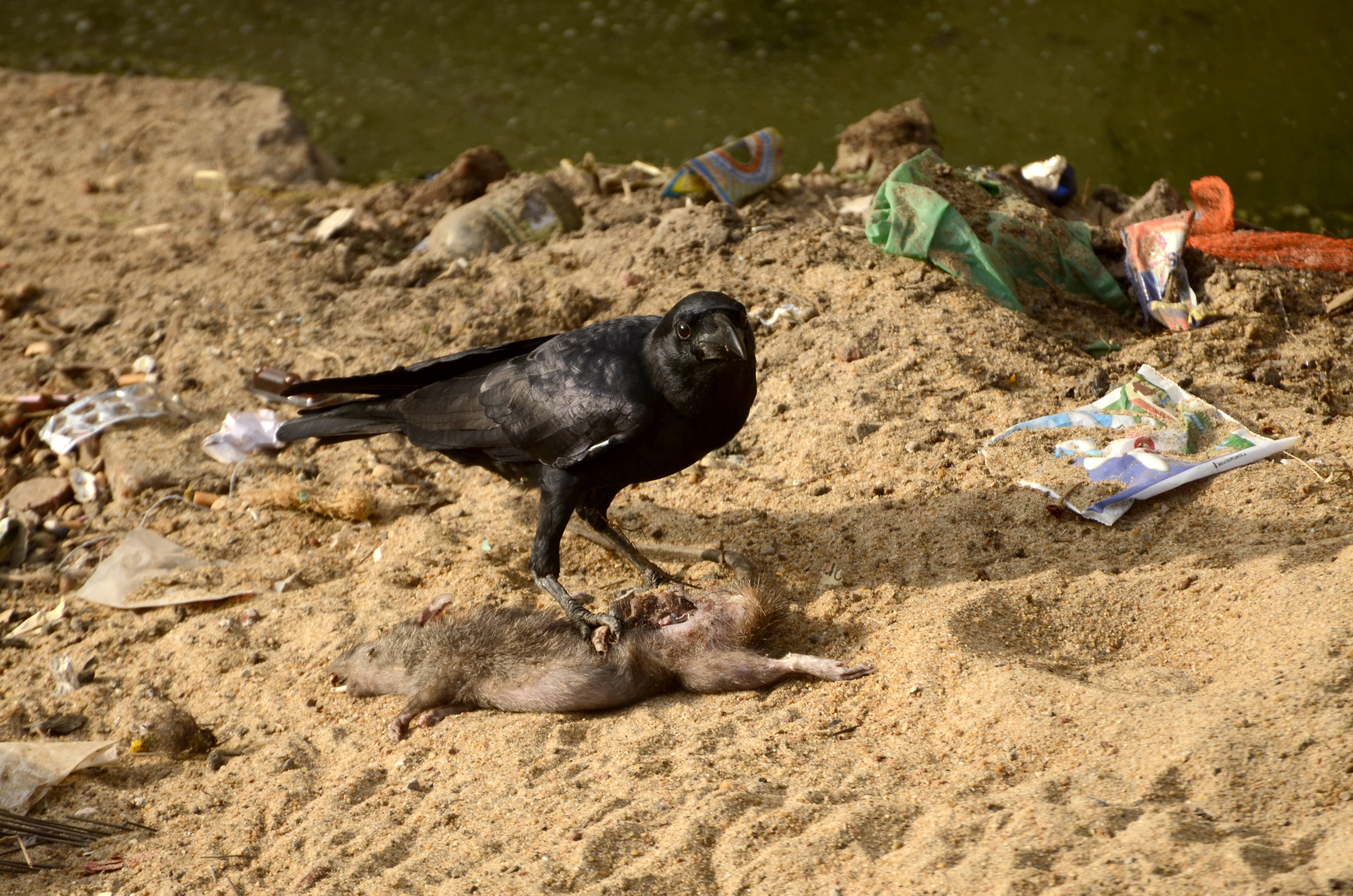 Large-billed crow feeding on rat carcass_Thanjavur, Tamil Nadu